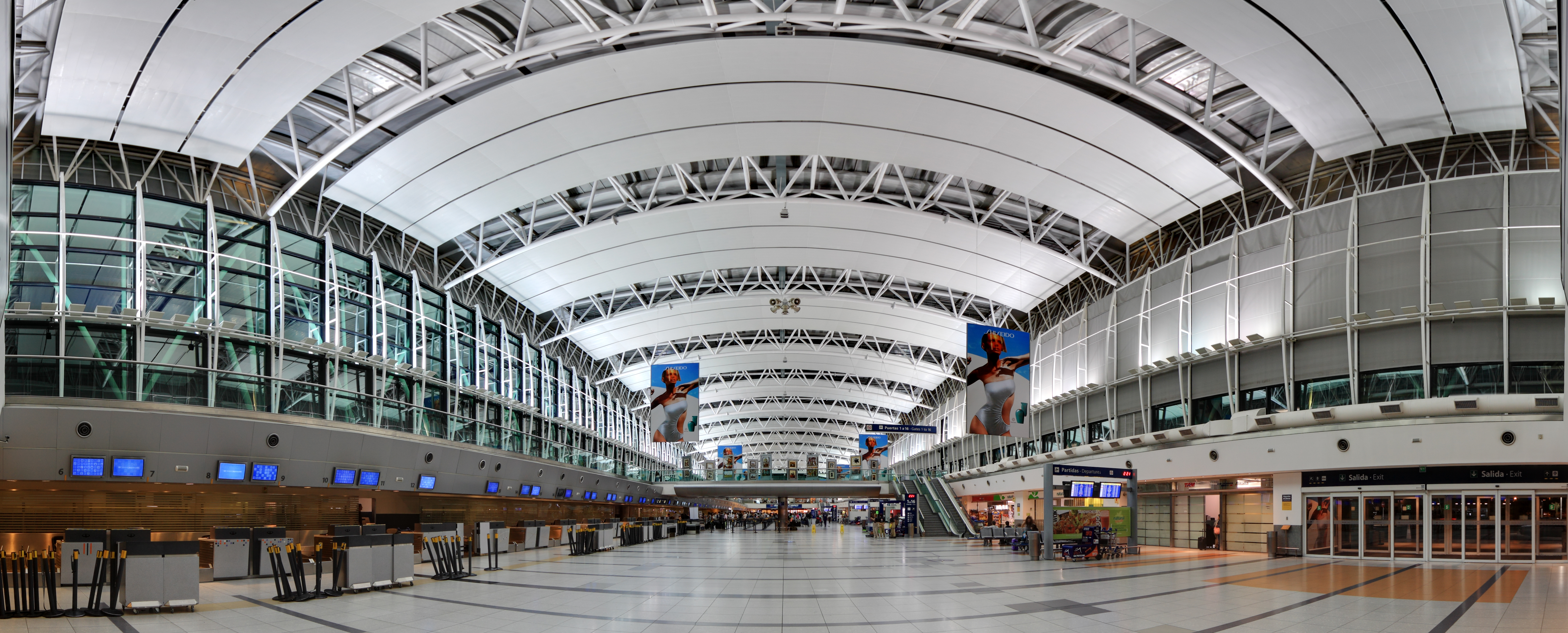 Please, have this description accessible to all by translating it in different languages.